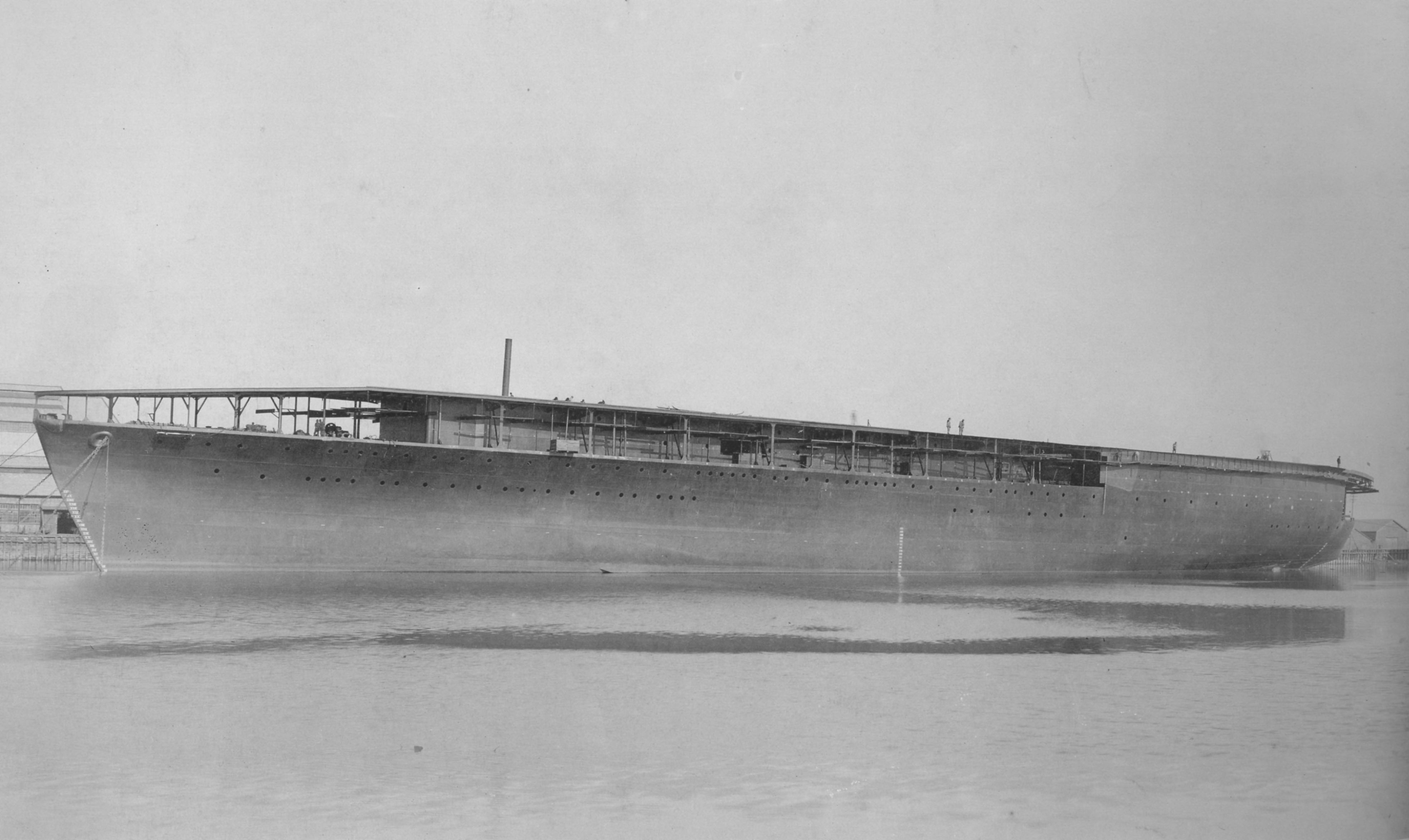 「鳳翔」大日本帝国海軍航空母艦。鶴見造船所から横須賀工廠へ回航される直前の写真。After launch, the Imperial Japanese Navy aircraft carrier Hōshō is moved from the Asano factory to Yokosuka.